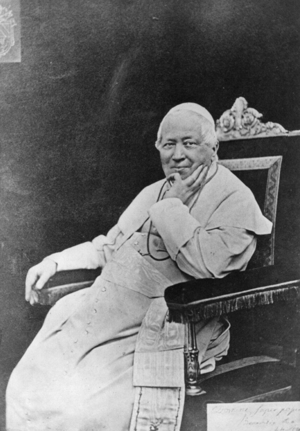 Pope Pius IX, born Giovanni Maria Mastai-Ferretti,[a] reigned from 16 June 1846 to his death in 1878. 3/4 lgth., photographic print, seated, facing slightly left; left hand under chin.